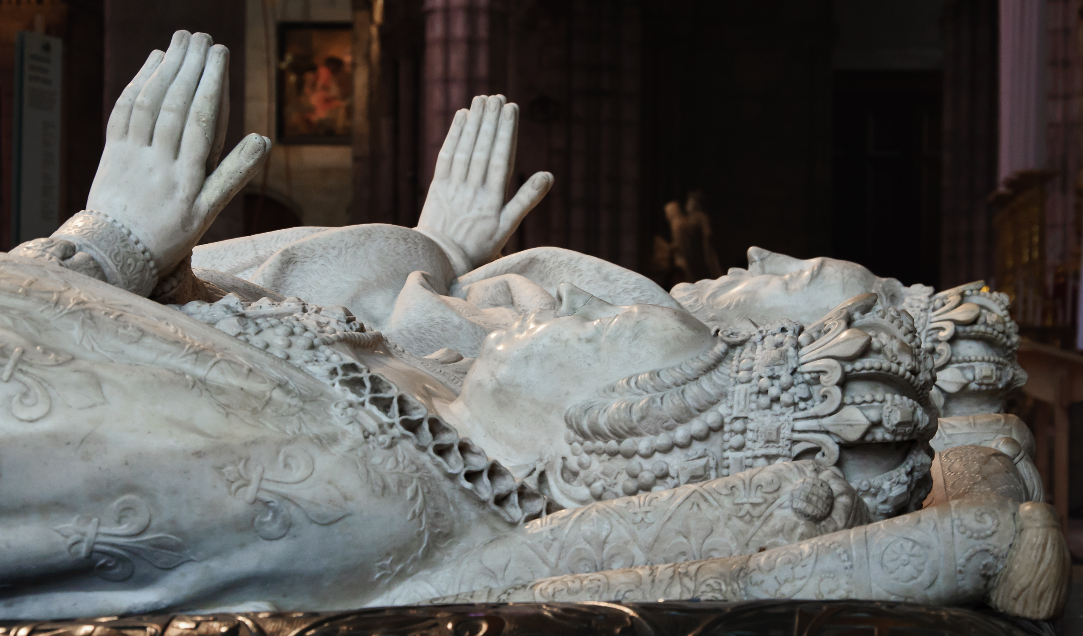 Effigies of Catherine de' Medici and Henry II in coronation vestments (detail)